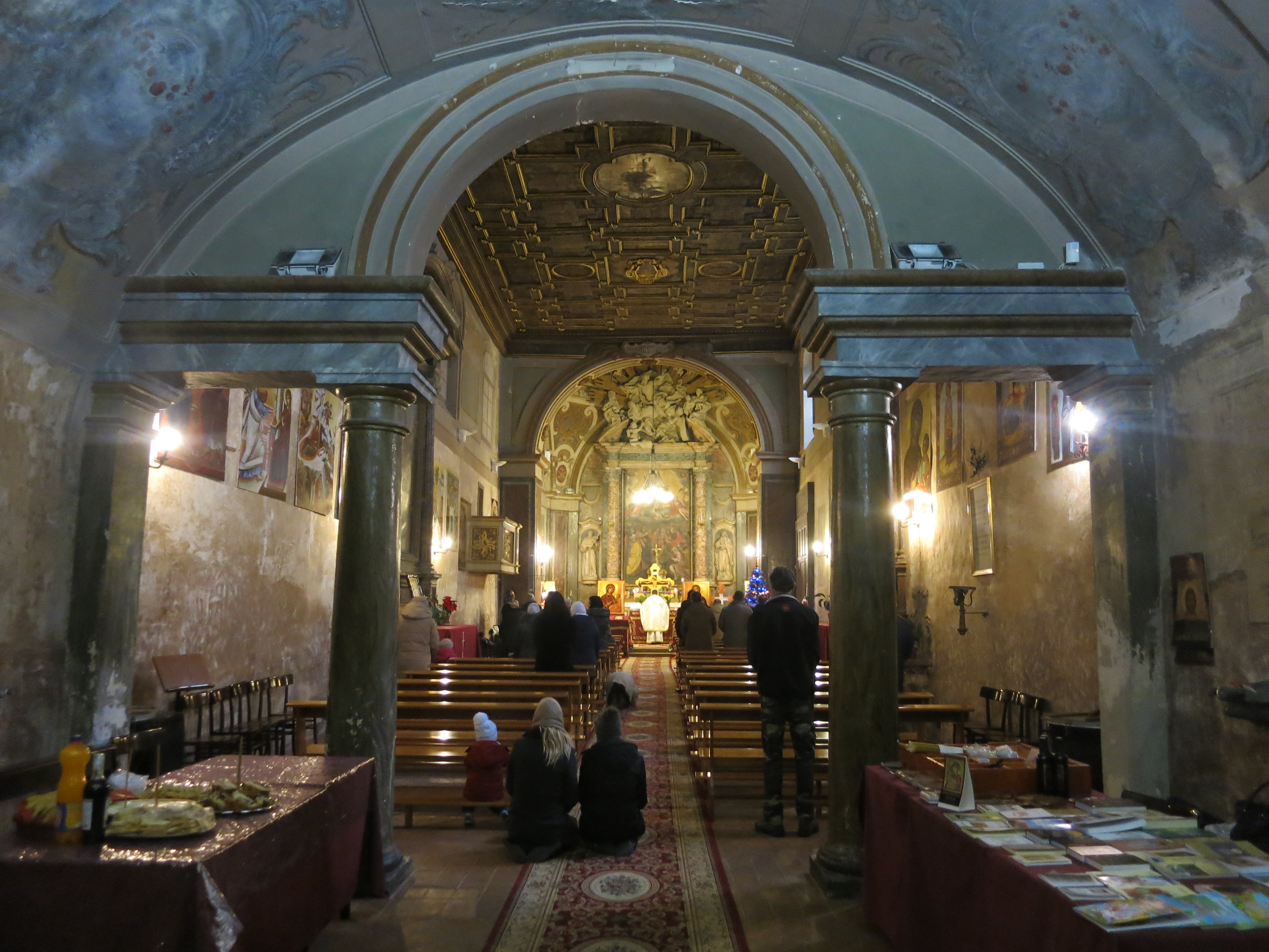 St. Lucy church (Rieti, Lazio, Italy)